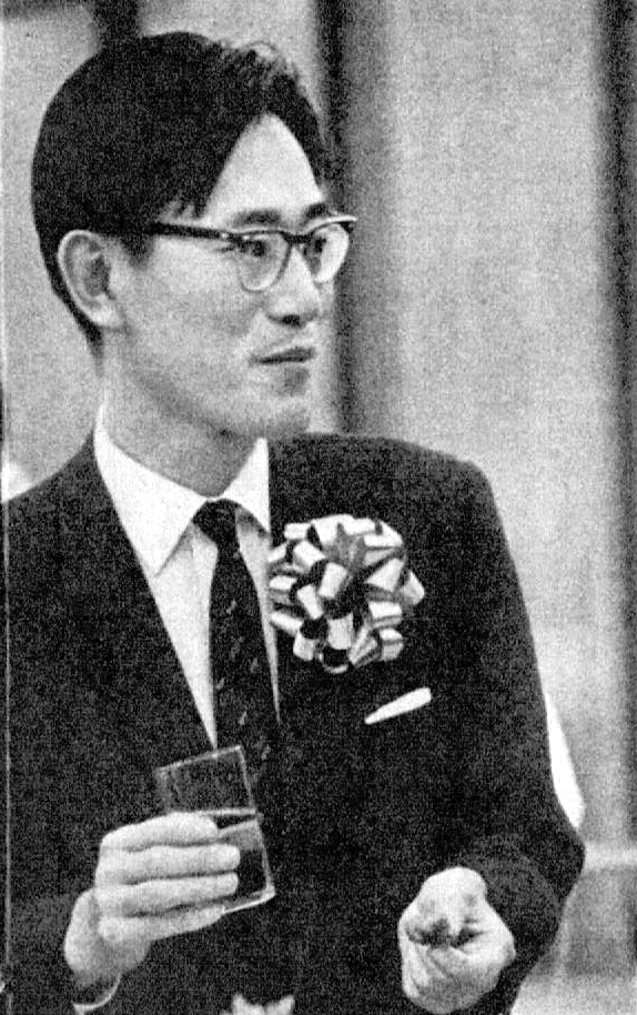 Masaaki Tachihara